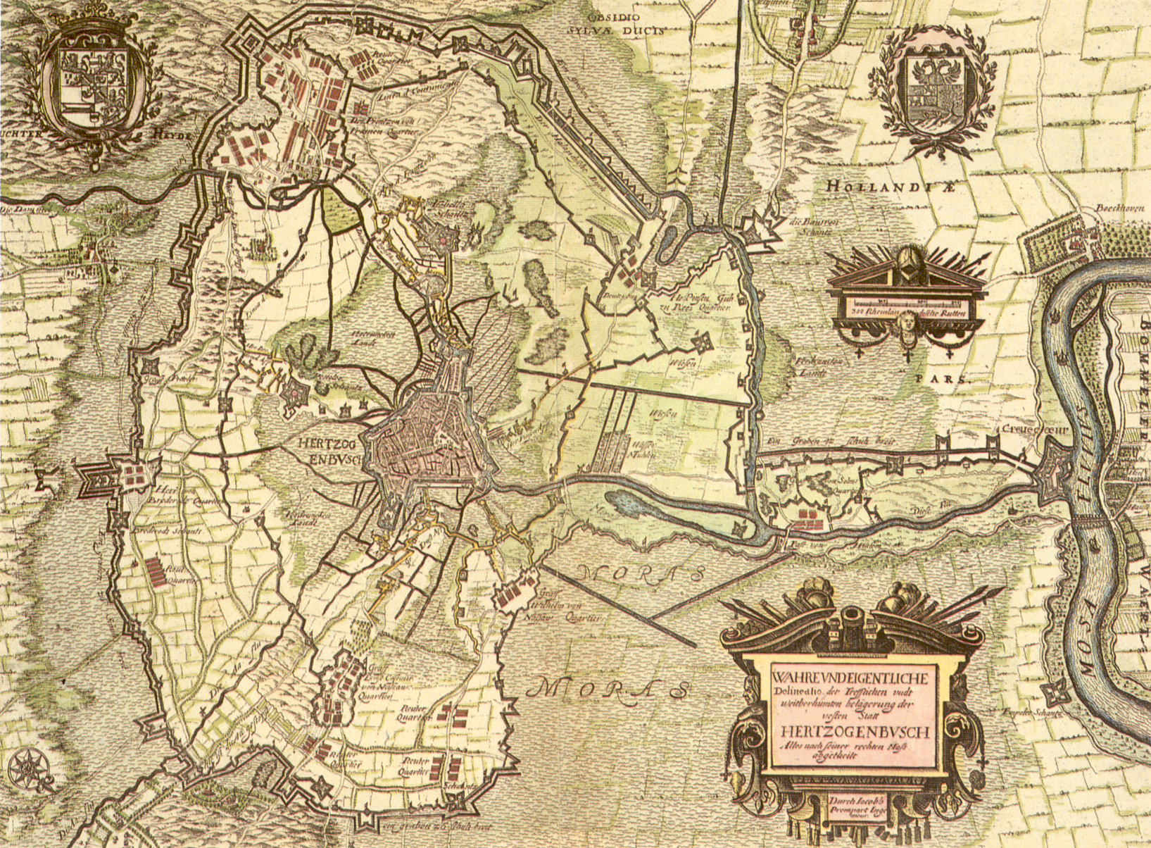 siege of 's-Hertogenbosch